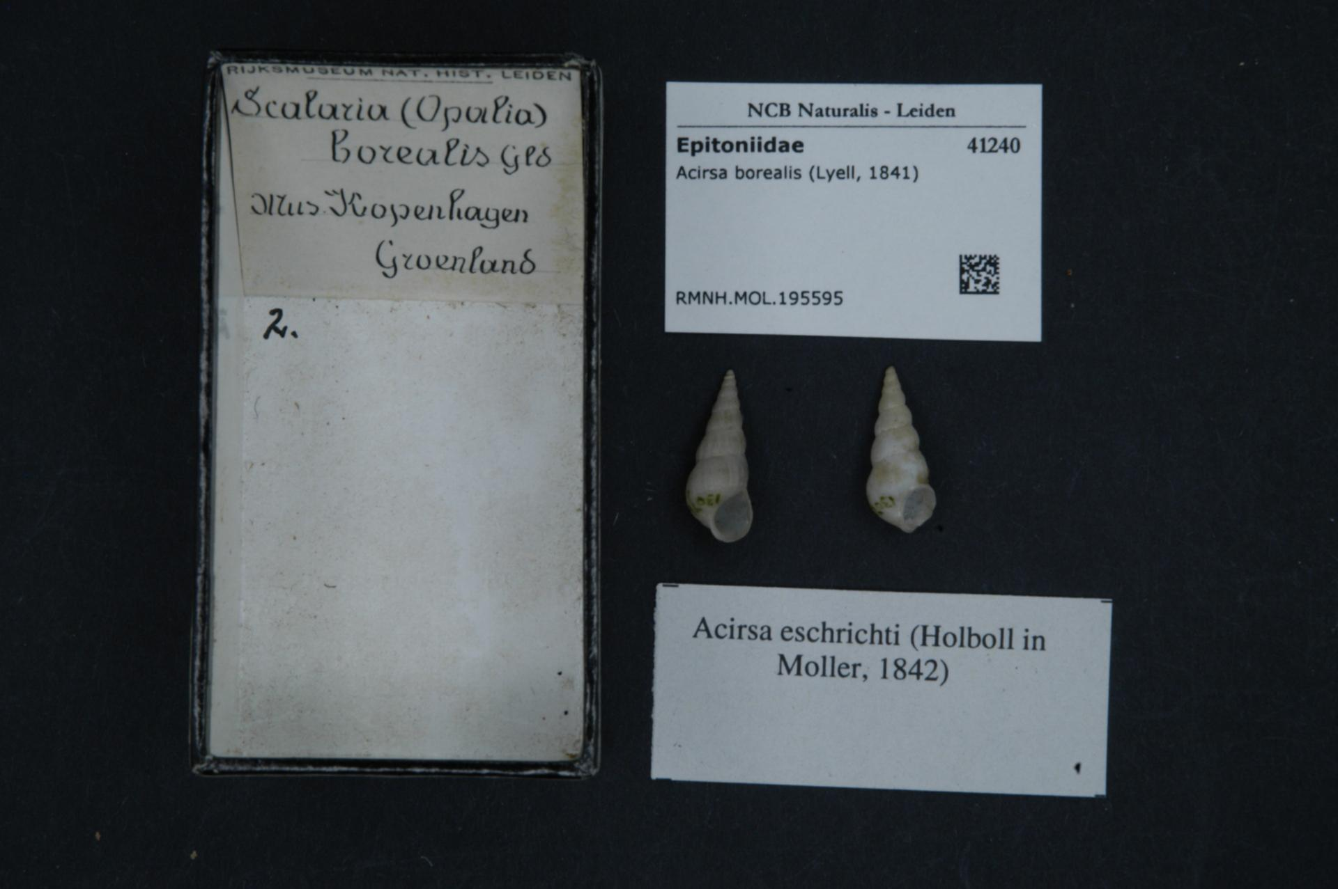 Acirsa borealis (Lyell, 1841)